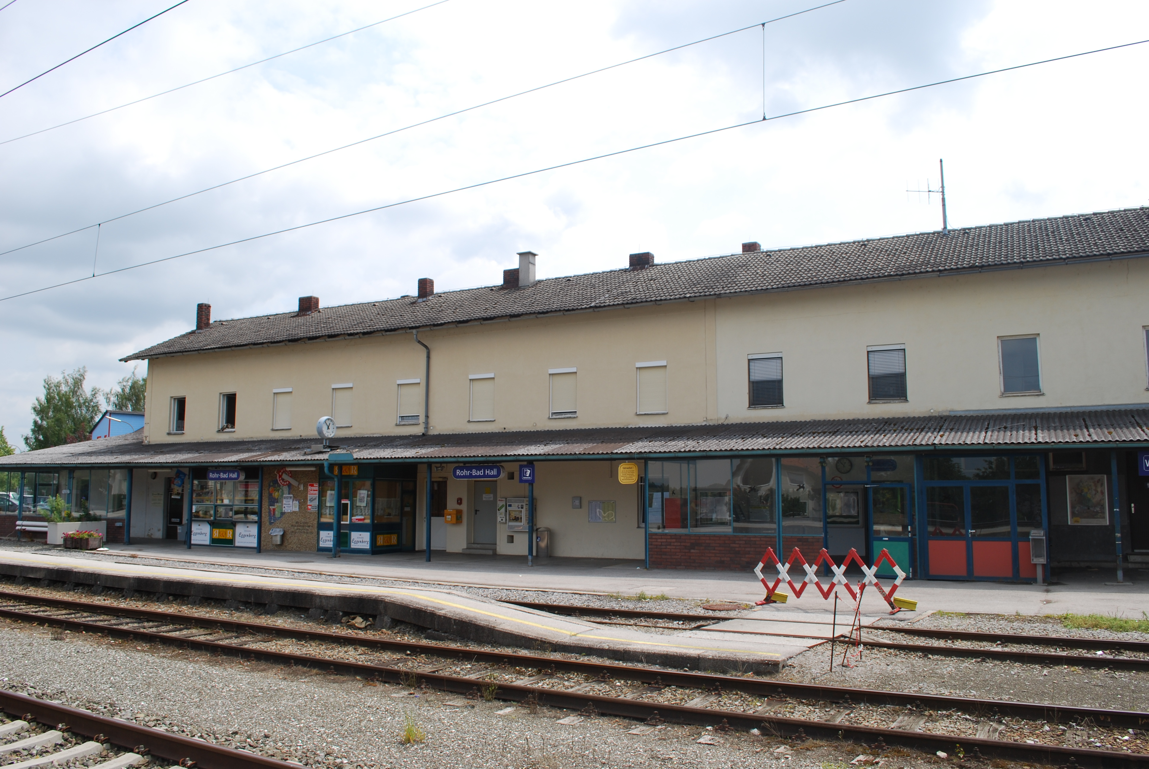 Train Station Rohr-Bad Hall